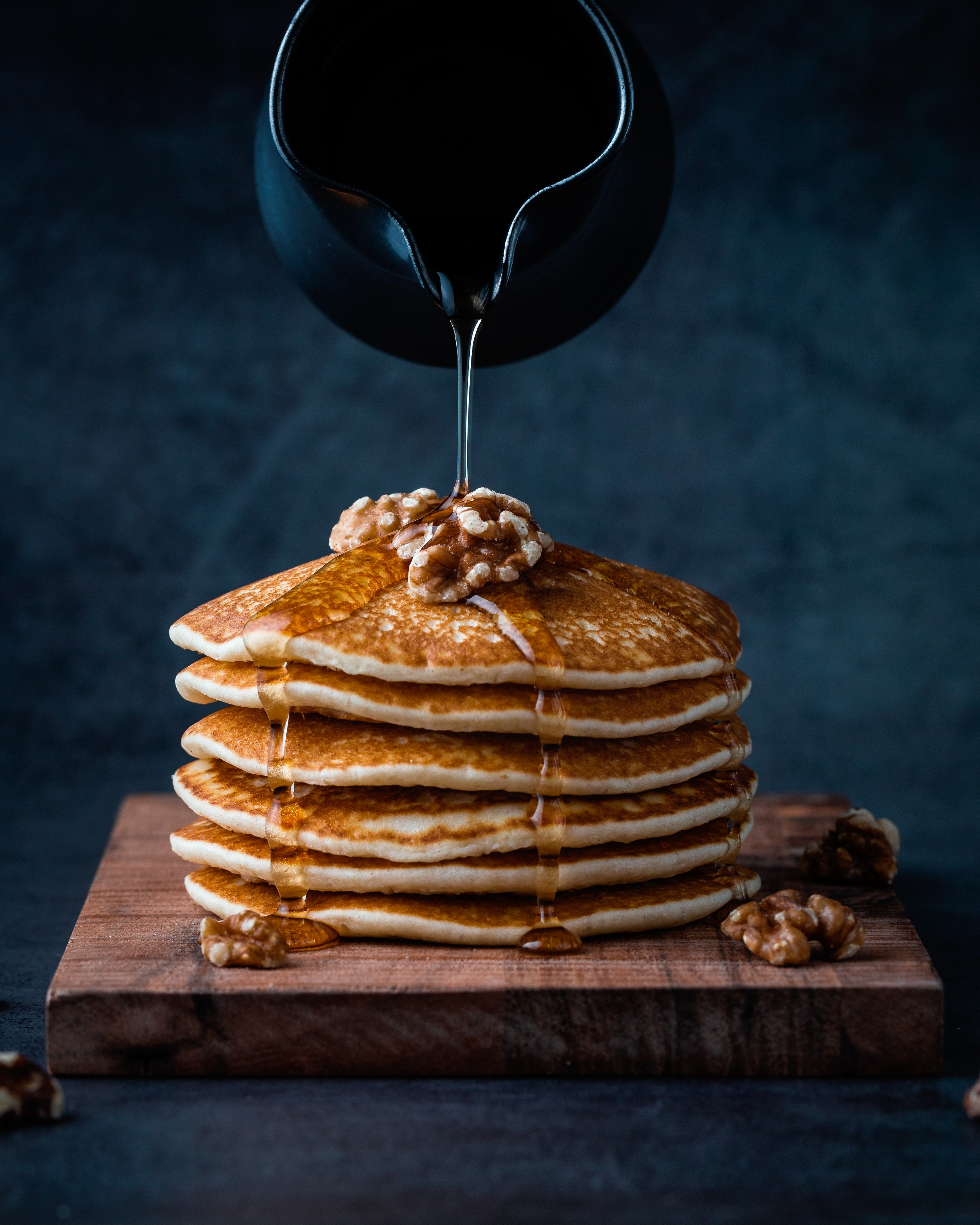 Honey poured on american pancakes. Walnuts are on top of the stack of pancakes.